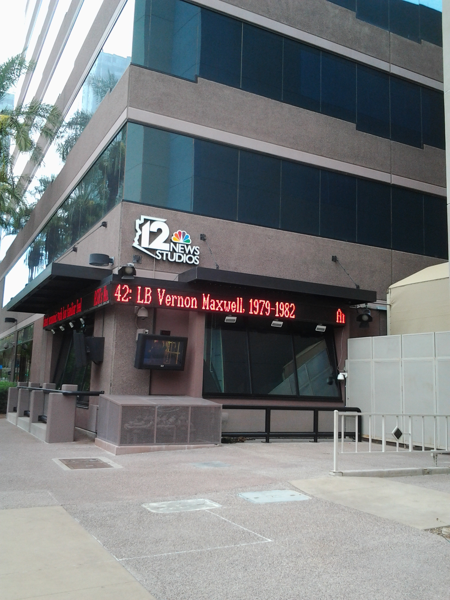 KPNX/12 News Studios located on the south-east corner of the Republic Media Building in Downtown Phoenix.